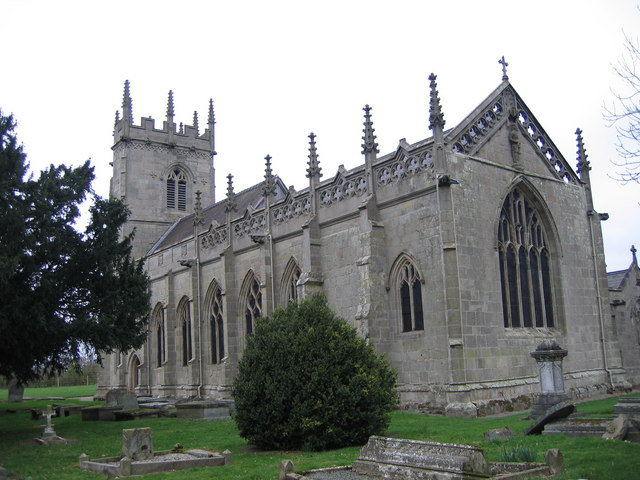 St. Mary Magdalene's Church, Battlefield., near to Battlefield, Shropshire, Great Britain.